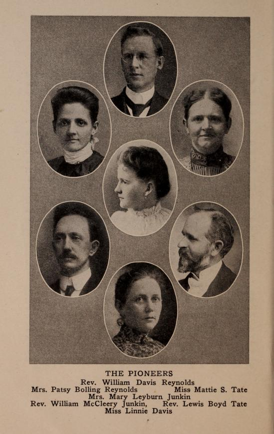 Pioneer Band of Seven from the Southern Presbyterian Mission in Korea Rev. William Davis Reynolds, Mrs. Patsy Bolling Reynolds, Miss Mattie S. Tate, Mrs. Mary Leyburn Junkin, Rev. William McCleery Junkin, Rev. Lewis Boyd Tate, Miss Linnie Davis